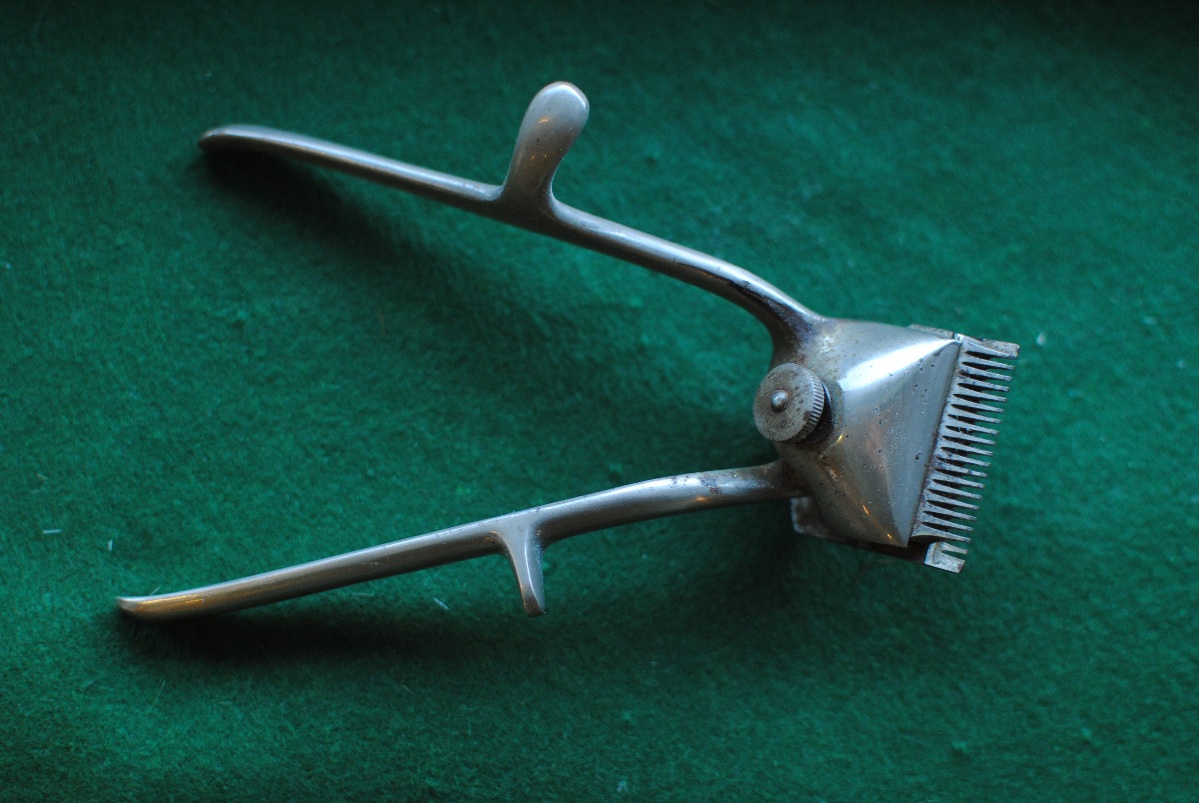 Unbranded metal hair clippers, photographed at a barber's shop in Birmingham, England.